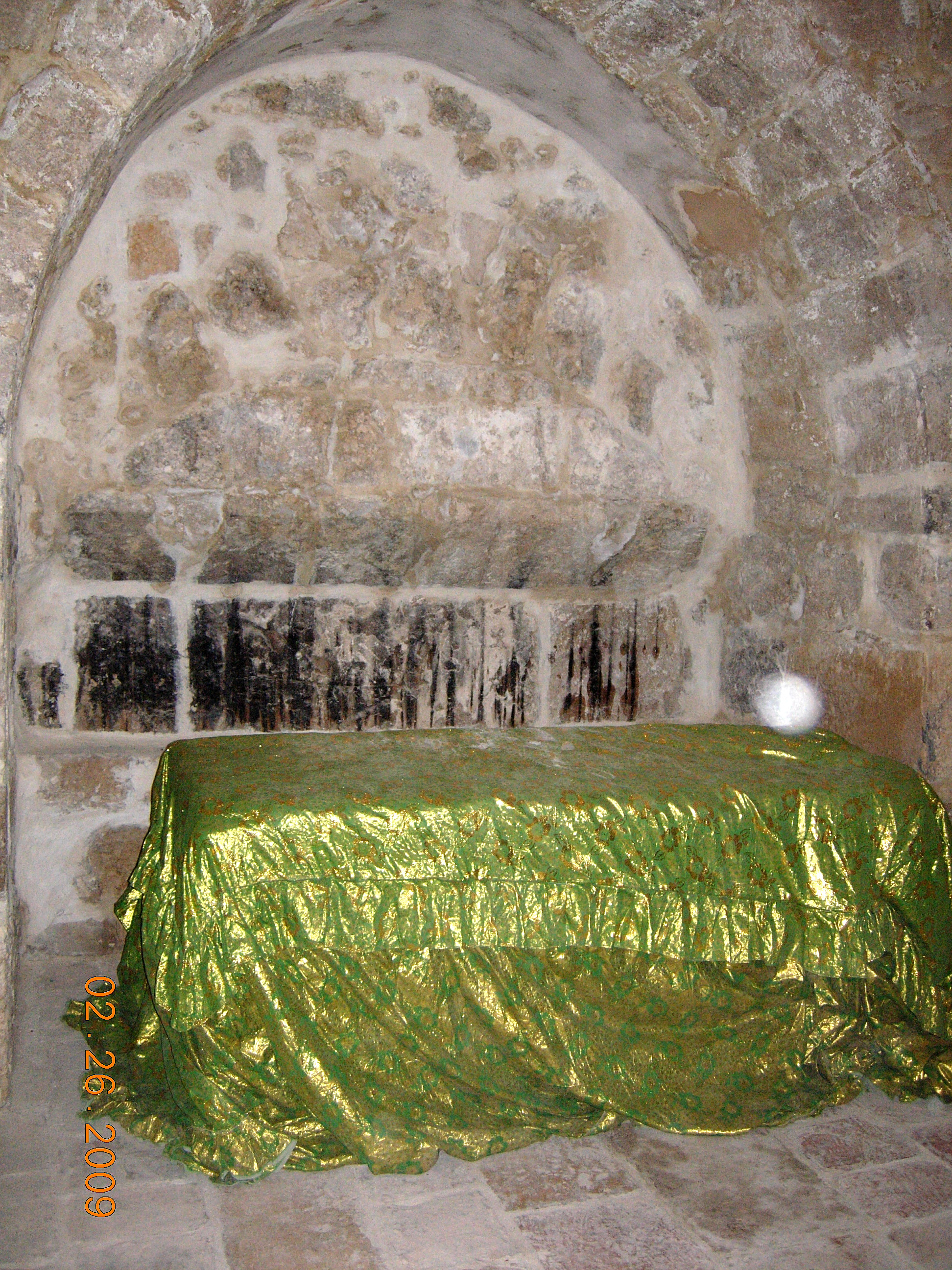 Hulda (Pelagia) Grave on the Mount of Olives